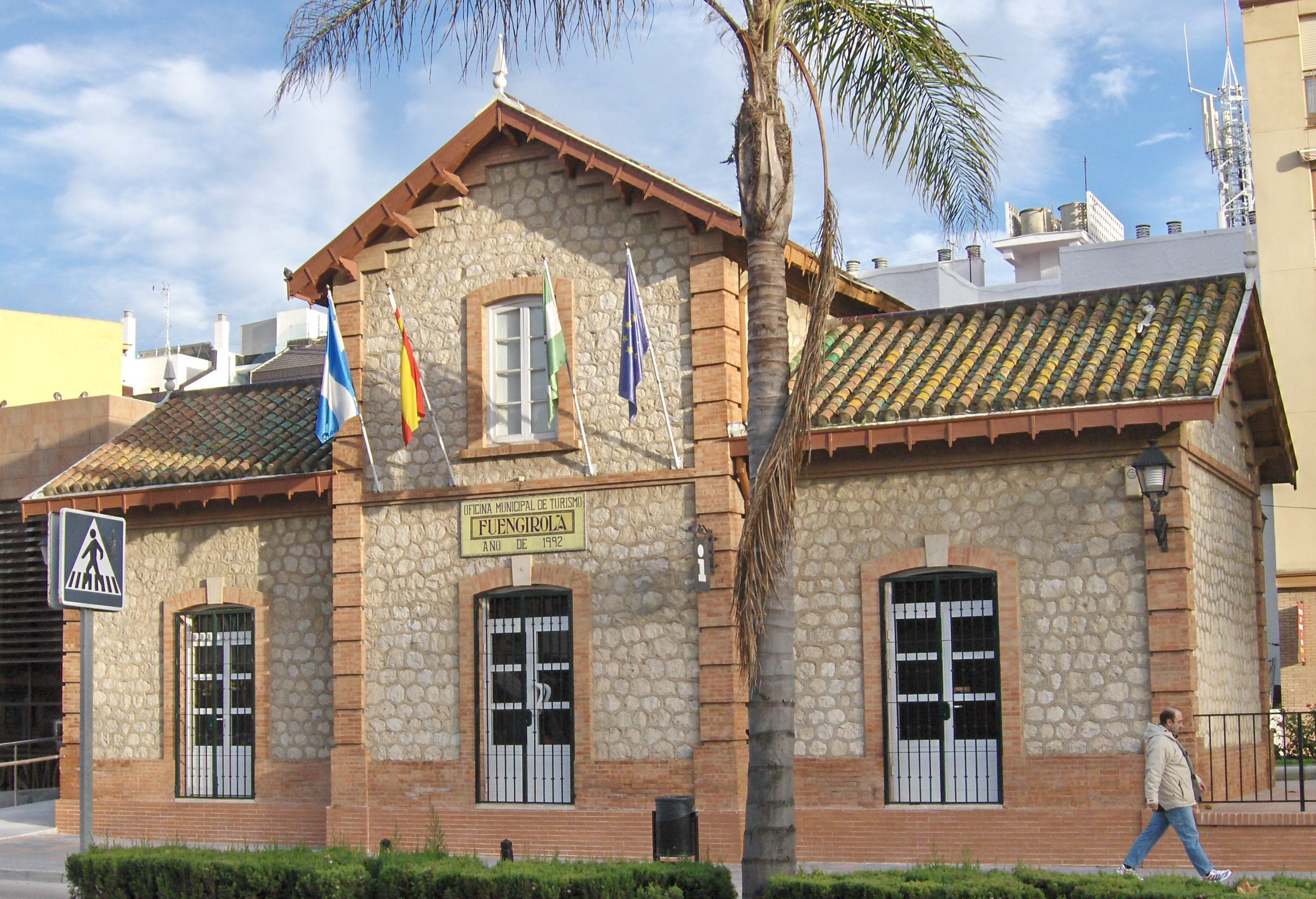 Former train station of Fuengirola, currently converted into a tourism information office. Fuengirola, Spain.